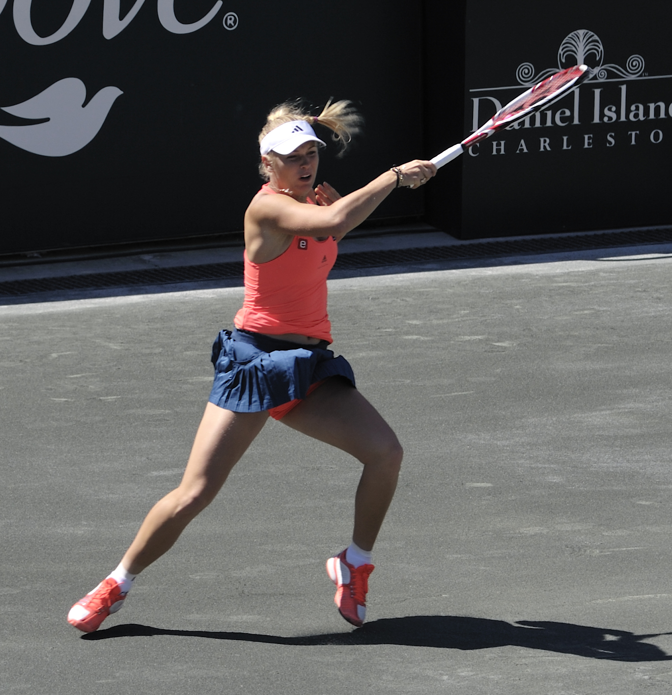 Wozniacki hitting a forehand.